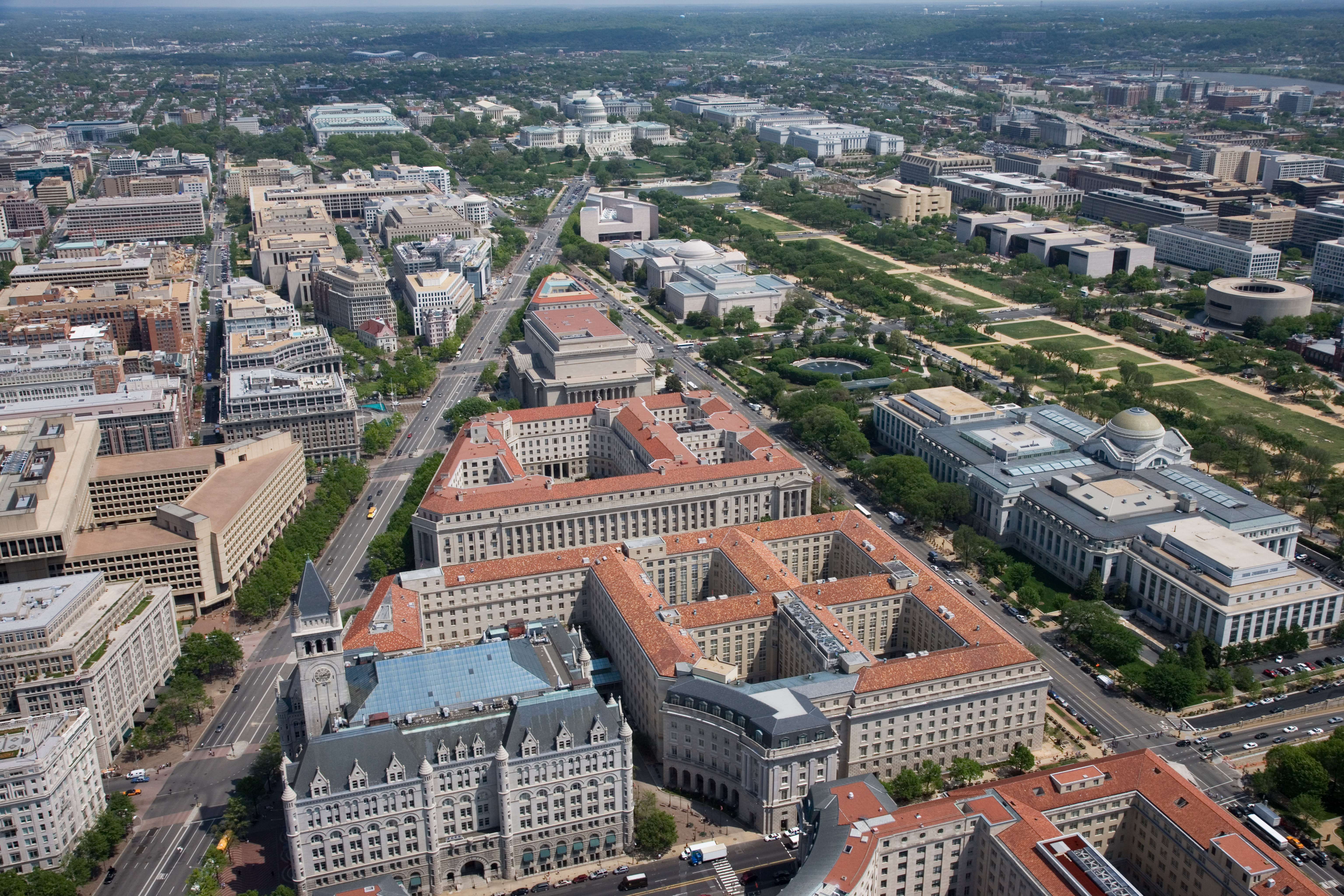 Aerial view of Pennsylvania Avenue (left) and the Federal Triangle (center), facing east towards the United States Capitol in Washington, D.C. Visible landmarks include the Old Post Office Pavilion (bottom left), the J. Edgar Hoover Building (center left), and the National Museum of Natural History (center right), among other sites, located on the National Mall (right).